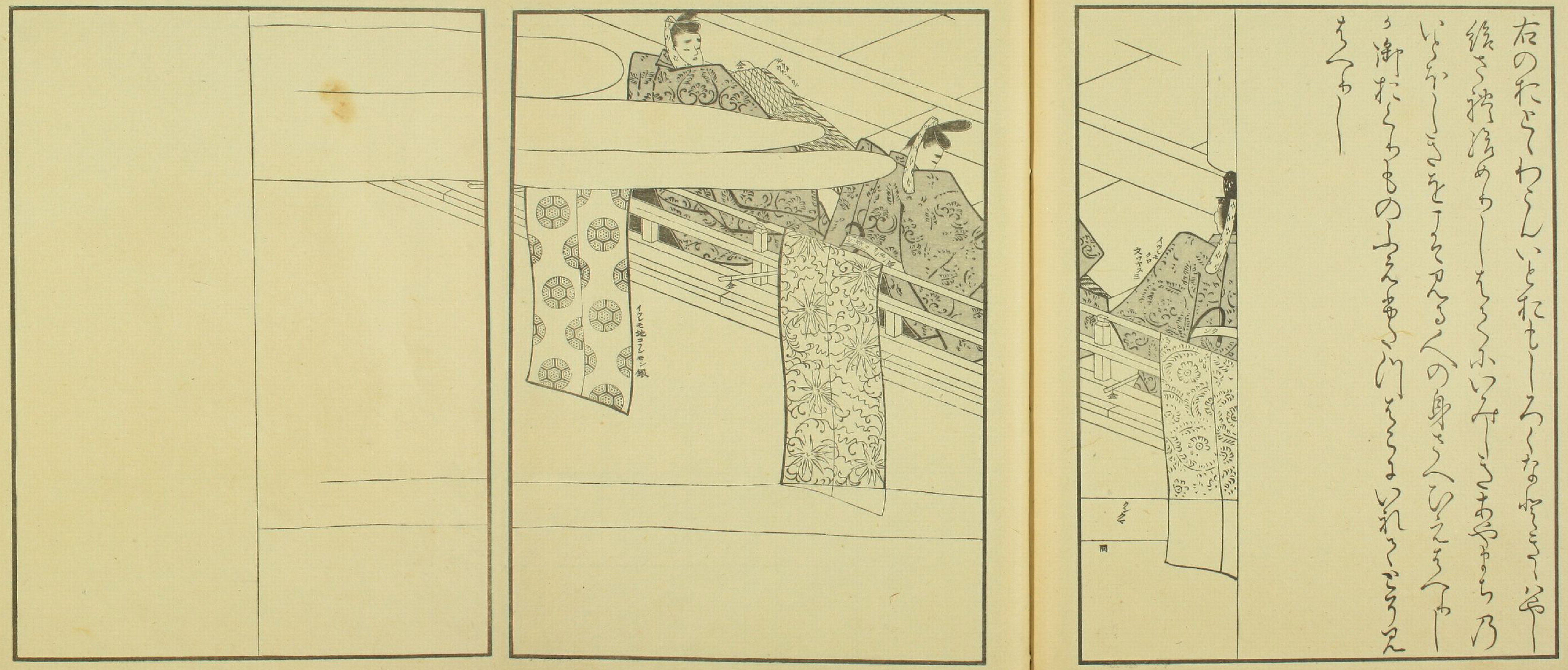 Ukiyo-e reproduction of the Murasaki Shikibu Diary Emaki, Hinohara scroll, 6th painting.